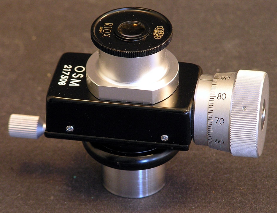 Olympus measuring eyepiece.